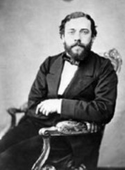 Émile Durand (1830-1903), French composer and musician